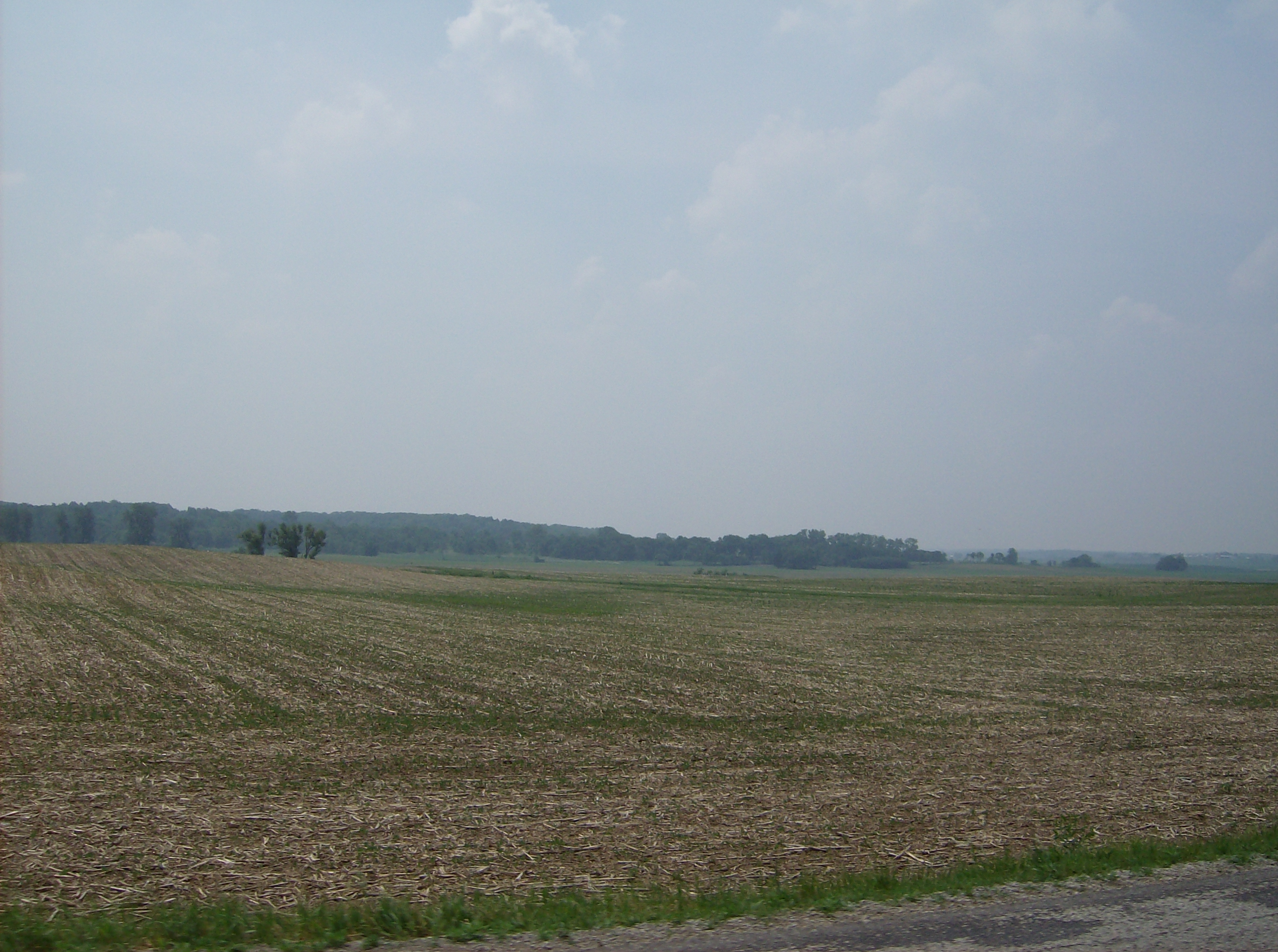 View of farmland in Union Township, Logan County, Ohio, United States. Picture was taken looking southward from County Road 43 in northwestern Union Township.